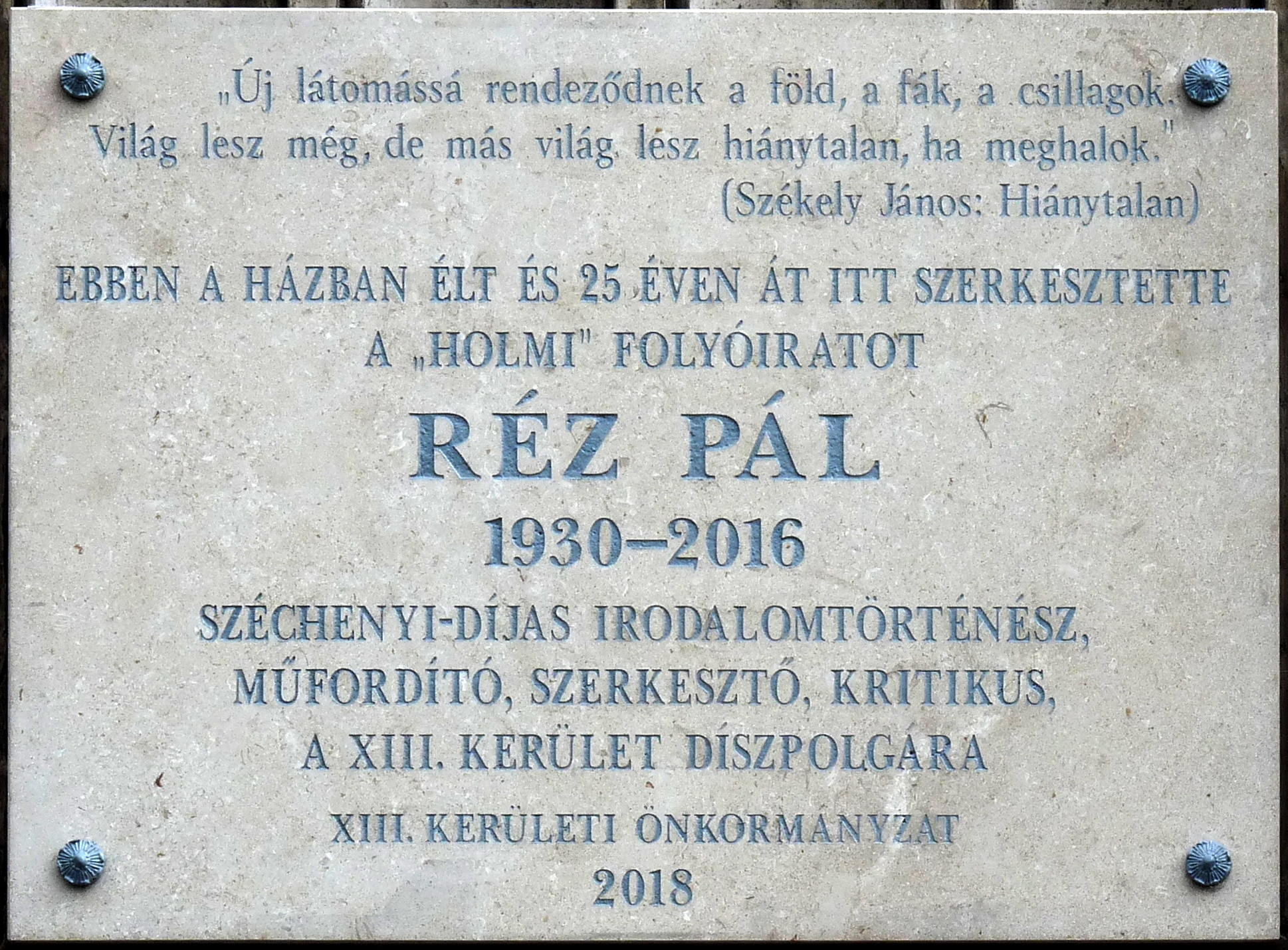 Commemorative plaque to Mr. Pál Réz (1930-2016) Hungarian literary translator, historian, critic and editor, citizen of honor of the 13th district of Budapest. It was affixed to the wall of the house that he lived from 1948 until his death and where he edited the magazine Holmi for 25 years. The plate was unveiled on 11 April 2018. Quote: "The earth, the trees, and the stars are transformed into new visions. There will be a world but another world will be complete if I die. " by János Székely. (Budapest, District XIII, Jászai Mari Square Nr 4/a)